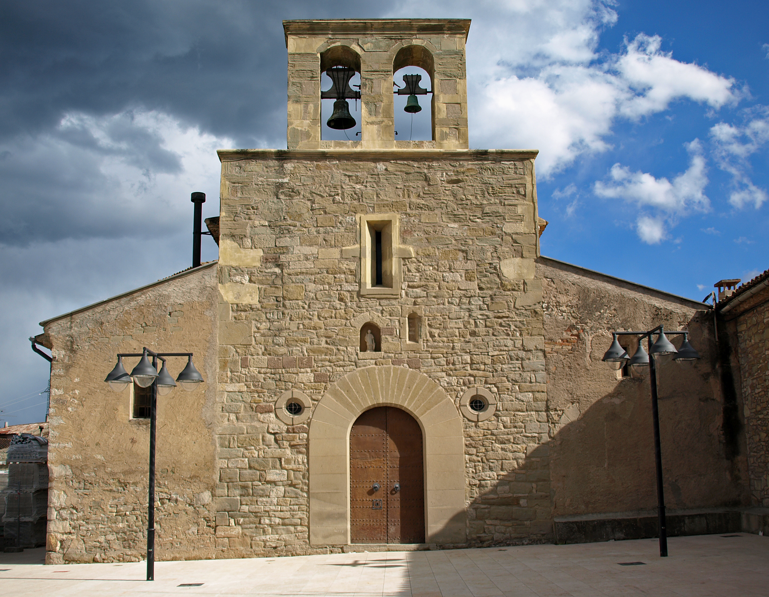 Church of Sant Vicenç de Calders (Catalonia, Spain).